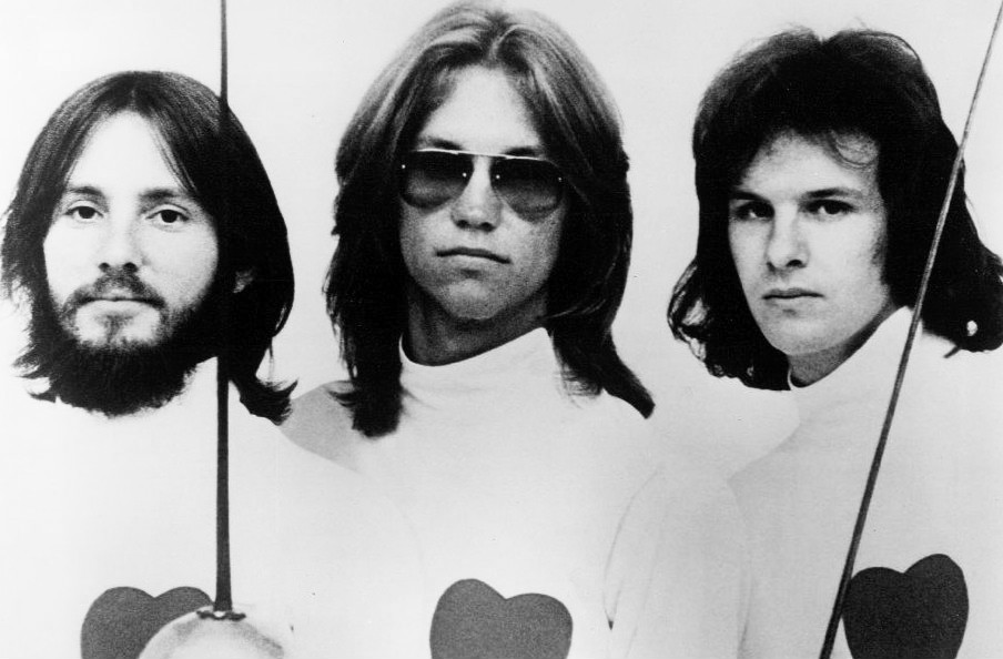 Publicity photo of the musical group America. From the date and by what the band is wearing, this was done to promote their 1975 "Hearts" album.